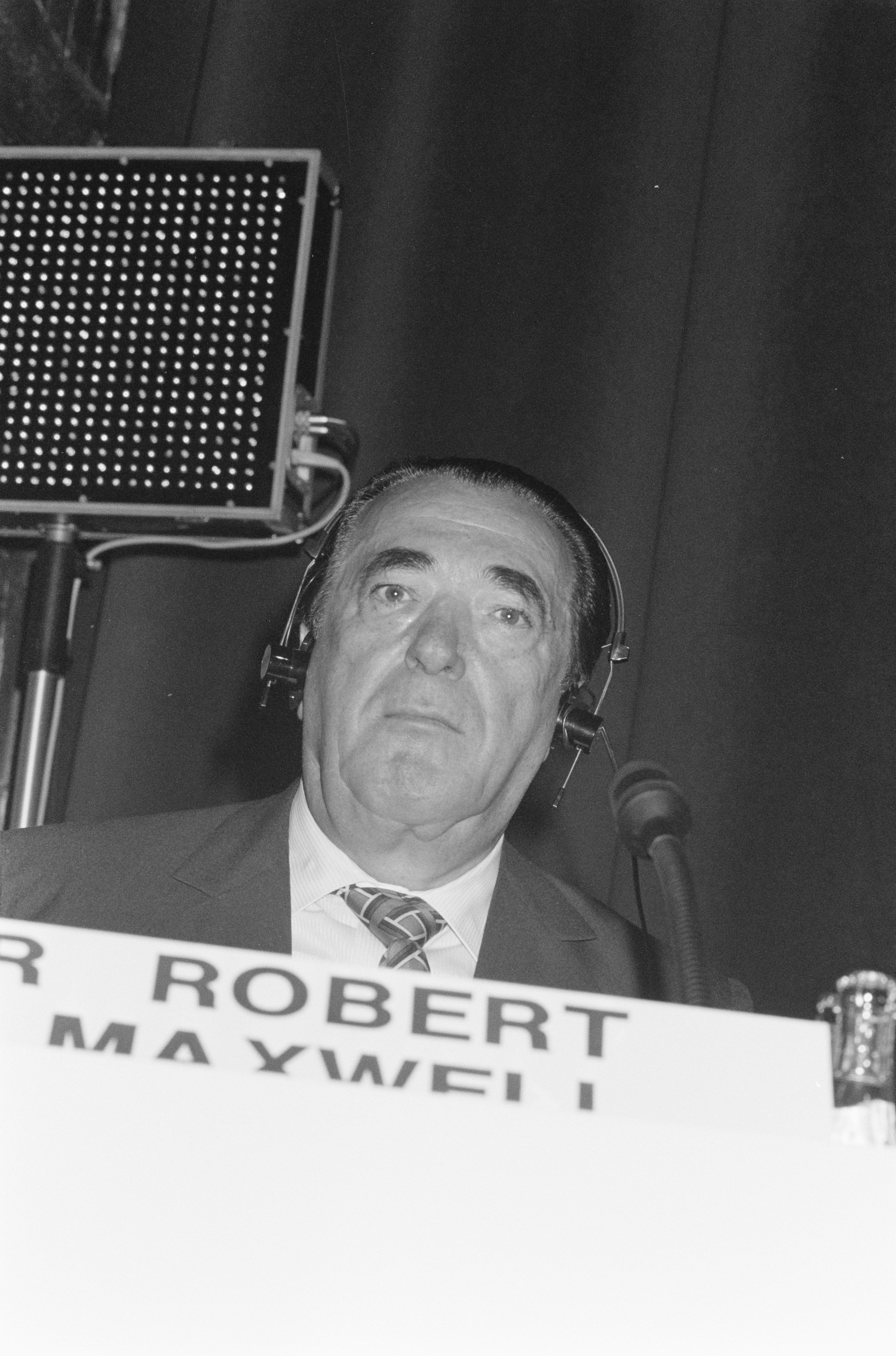 Publisher Robert Maxwell at the Global Economic Panel in Amsterdam 1989